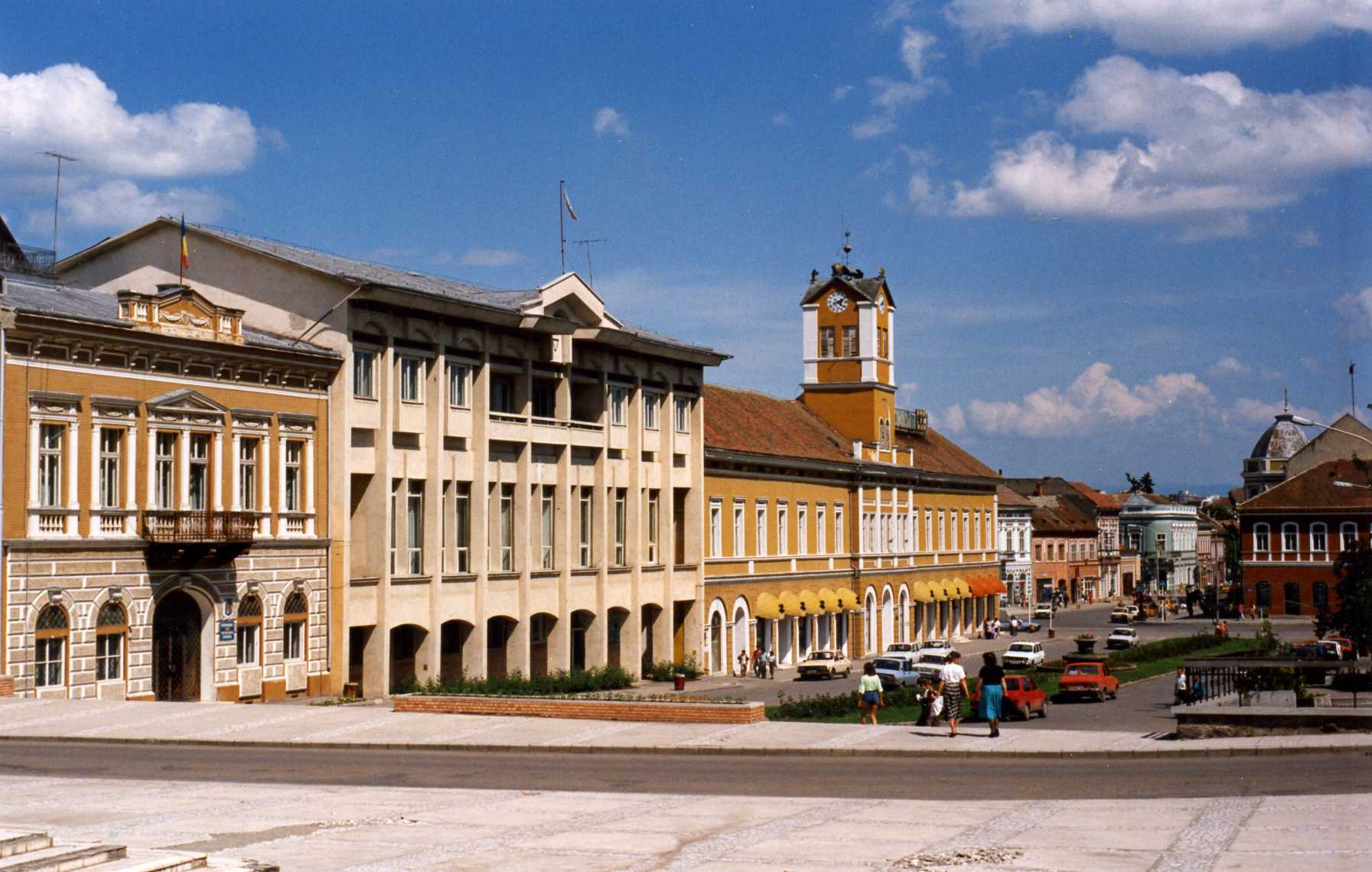 Main square of Sfântu Gheorghe, 1994